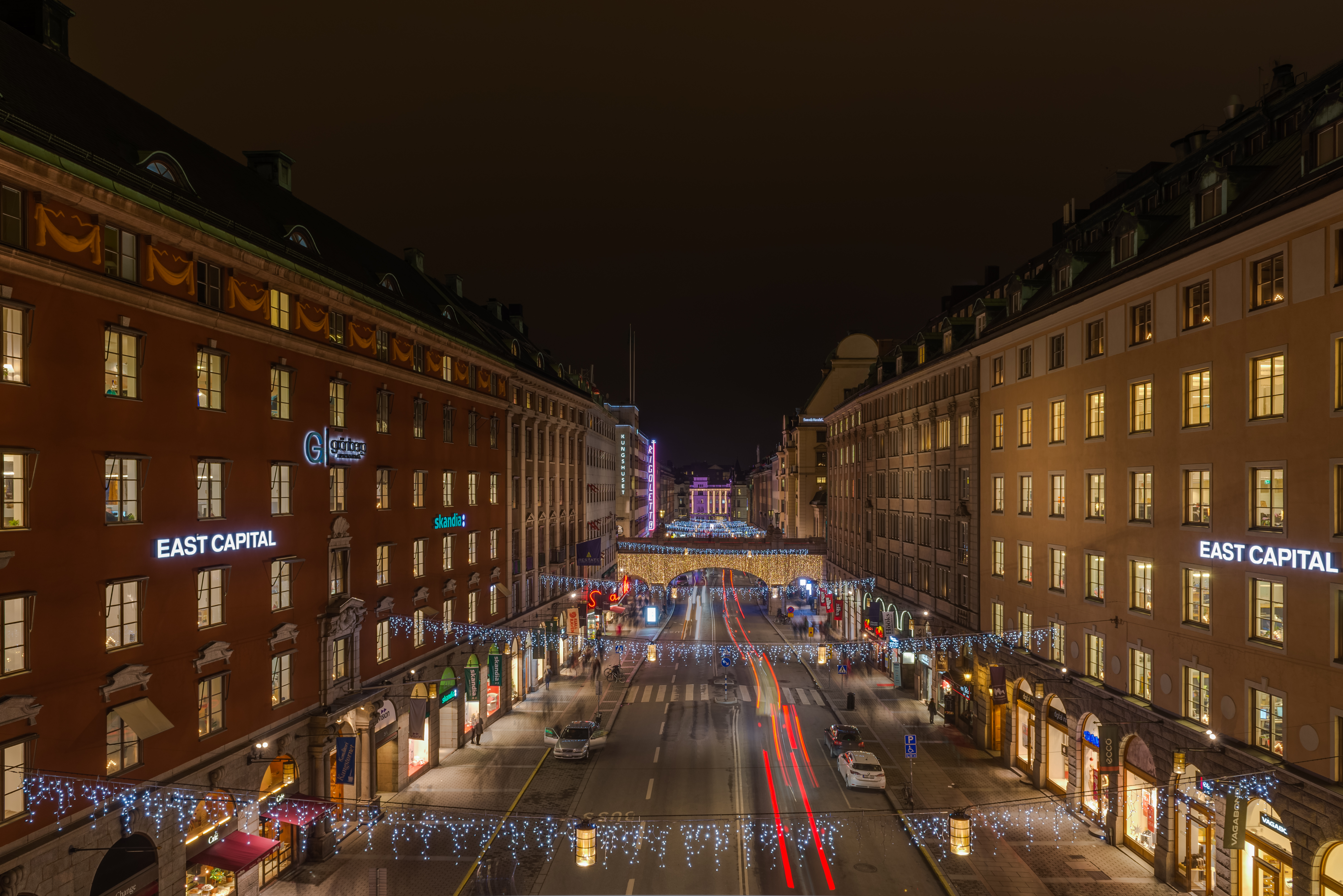 Kungsgatan (Swedish for "King's Street"), Stockholm. Exposure fusion from 2 exposure (5 and 1/10 sec)